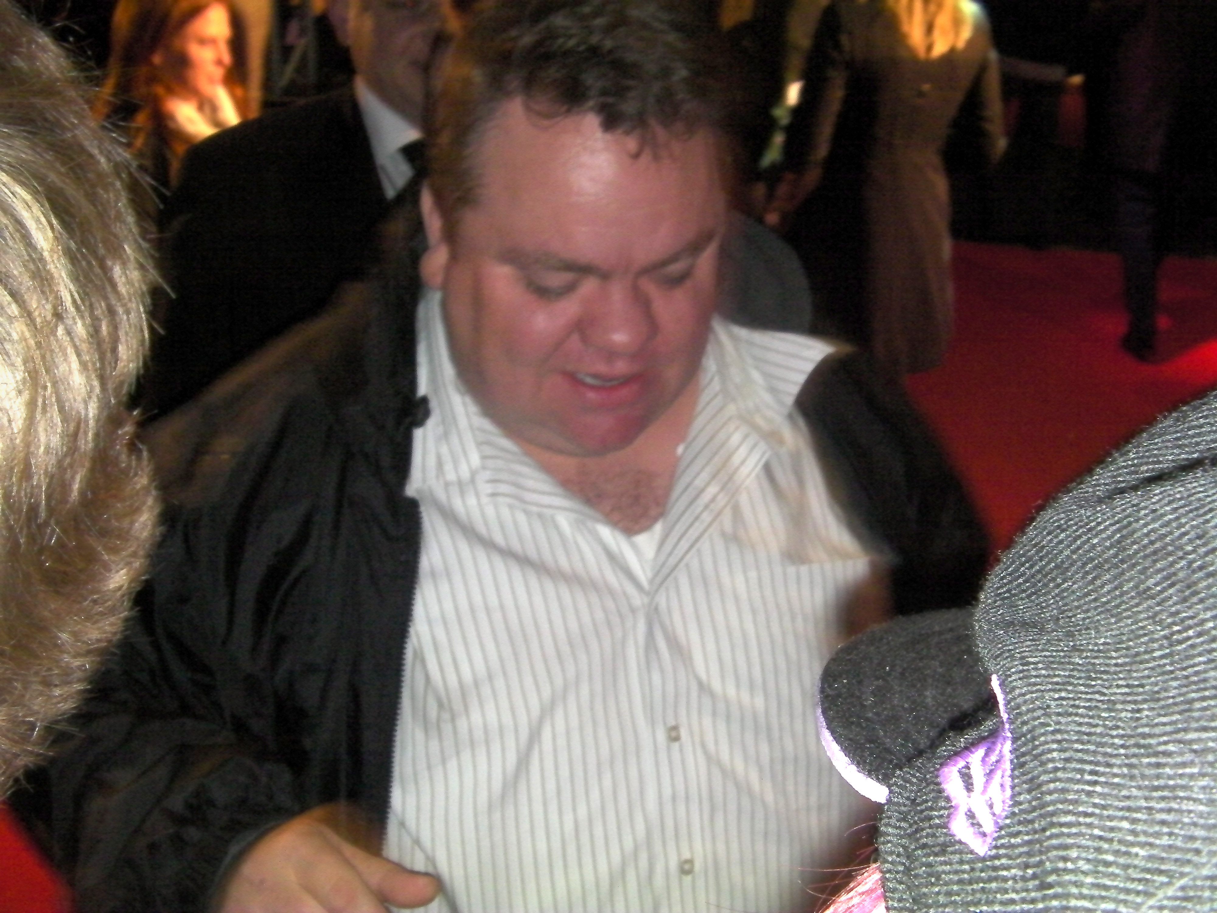 Preston Lacy at Jackass 3D London Premiere 2nd November 2010.